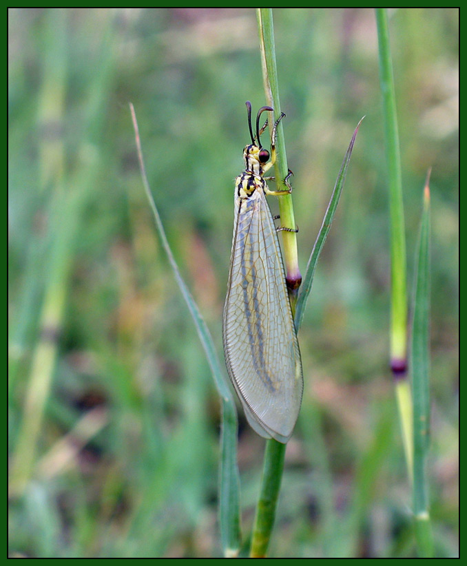 A small flying life piece